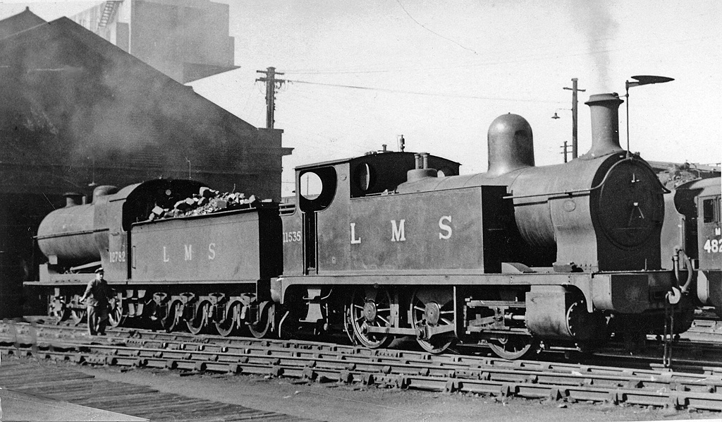 Bank Hall Locomotive Depot in 1948: two ex-Lancashire & Yorkshire engines. View SW, outside the smaller through Shed: ex-L&Y 1F 0-6-0T No. 11535, fitted with dumb buffers and swinging spark-arrestor for working in the Docks; behind it is Class 30 6F 0-8-0 No. 12782. (Beyond can be glimpsed an 8F 2-8-0 with the unusual combination of 'M' as well as the BR initial '4' added to its number).